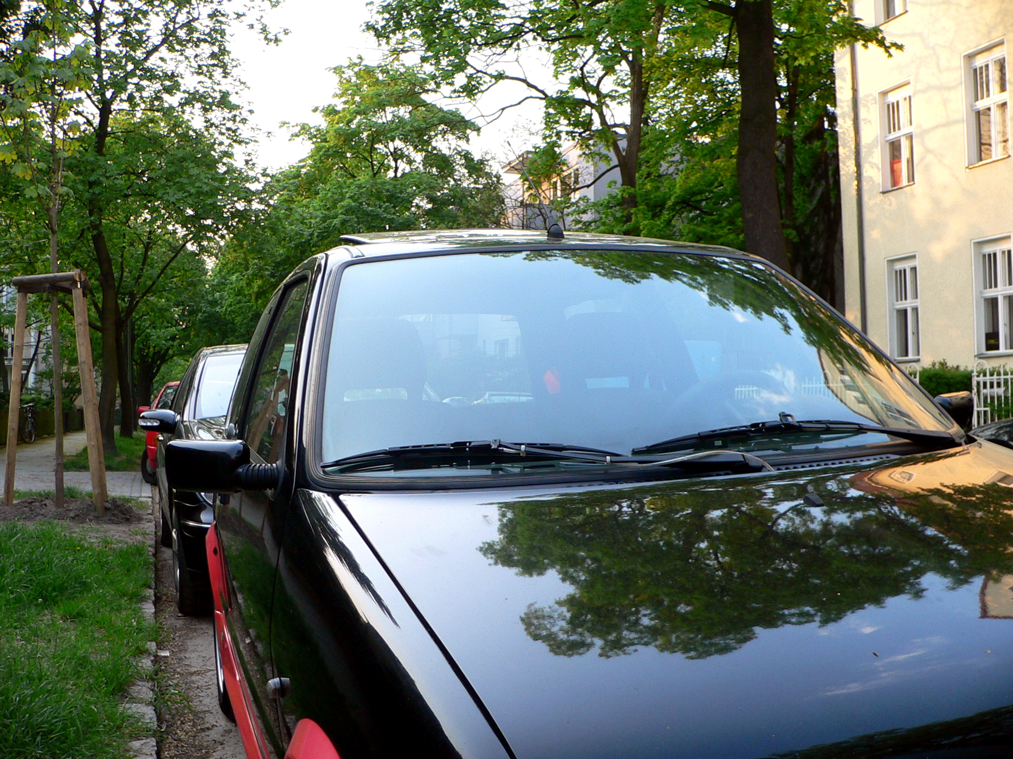 An Image with false adjusted polarizer. (See File:Polfilter richtig.jpg for right adjusted polarizer. File:Polfilter ohne.jpg shows the scene without polarizer.)